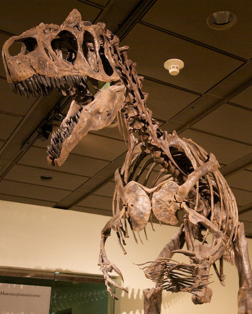 Photos taken at the "Wikipedia Loves Art" meetup at HMNS on 15-Feb-09.